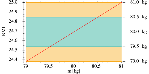 Computation of the Body mass index with uncertain weight as an example application for interval arithmetical computations for a person of 1,80 m height.